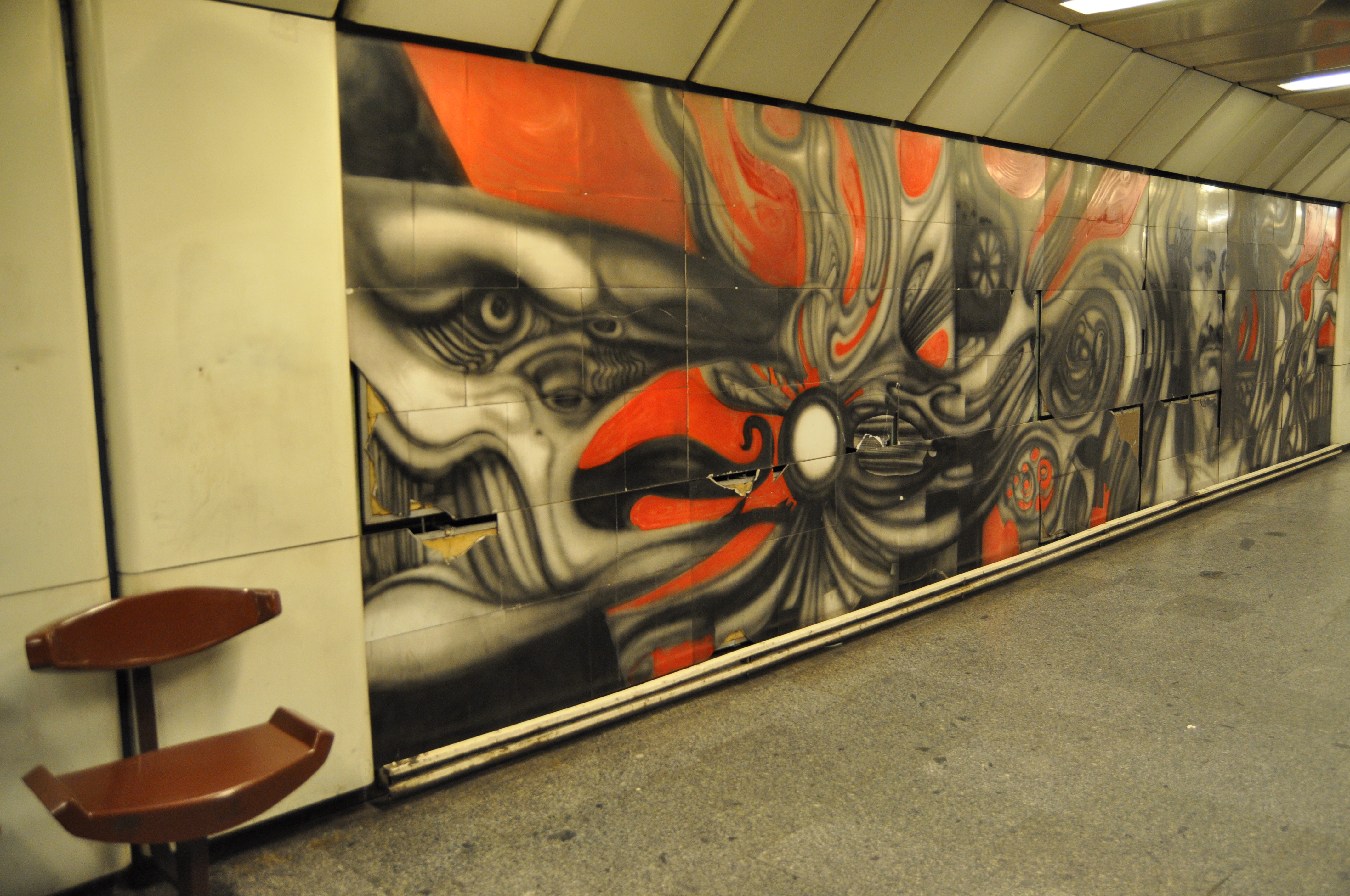 Budapest, metró 3, Dózsa György út